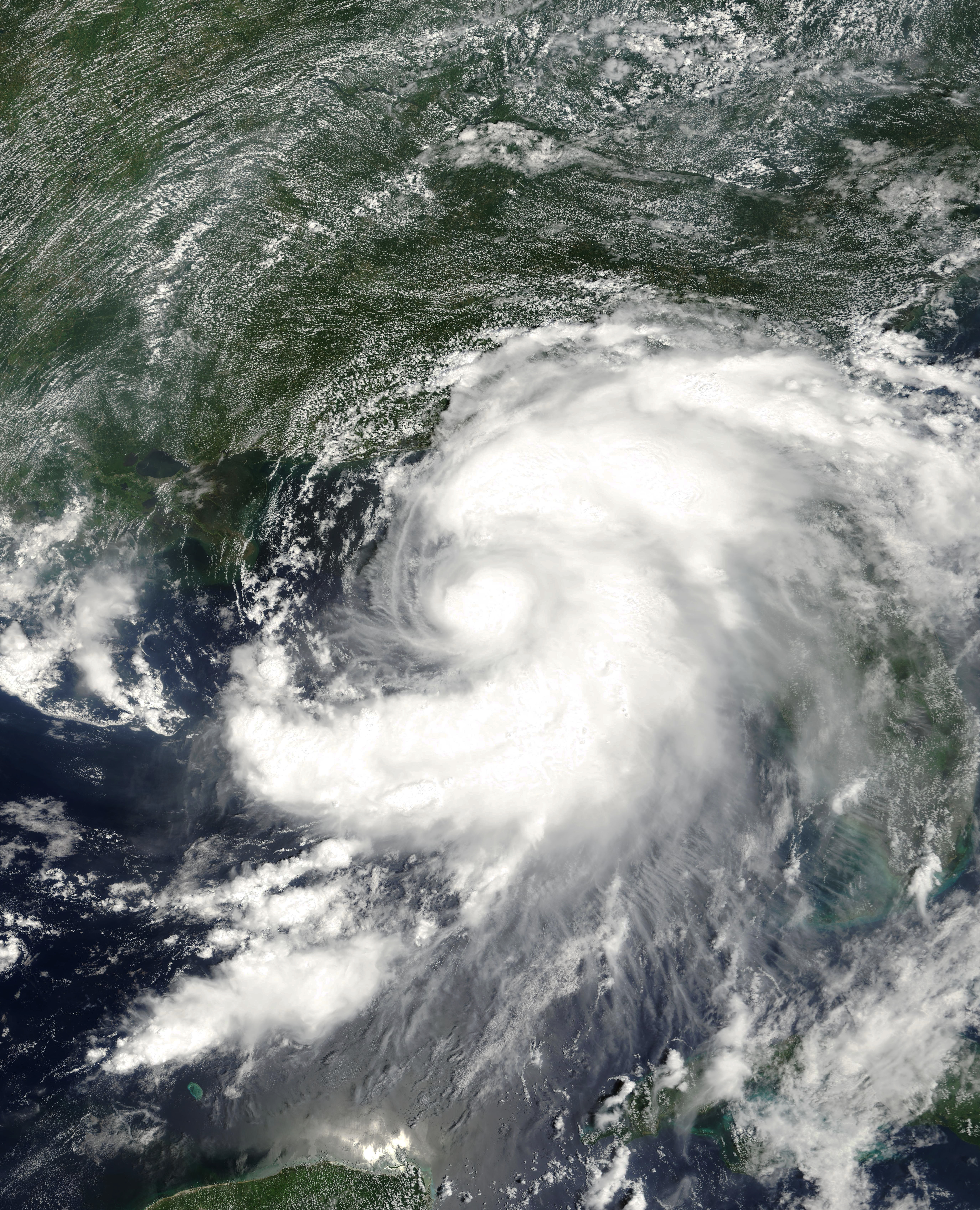 Although Tropical Storm Barry was downgraded to a tropical depression today (August 6, 2001), the threat of flooding and tornados is still hanging over the southeastern United States. This image, acquired by the Moderate-resolution Imaging Spectroradiometer on NASA’s Terra satellite, shows Barry stretching out over the Gulf of Mexico on August 5, 2001, the eye of the storm headed for western Florida. The outer band of clouds can be seen draped over Florida, southern Georgia, and southeastern Alabama. The western panhandle of Florida was hit hard--with high winds and a 4-5 foot tidal surge. No fatalities have yet been reported. The storm is expected to continue moving slowly north-northwest, which will make flooding likely in the Mississippi Valley over the next few days.